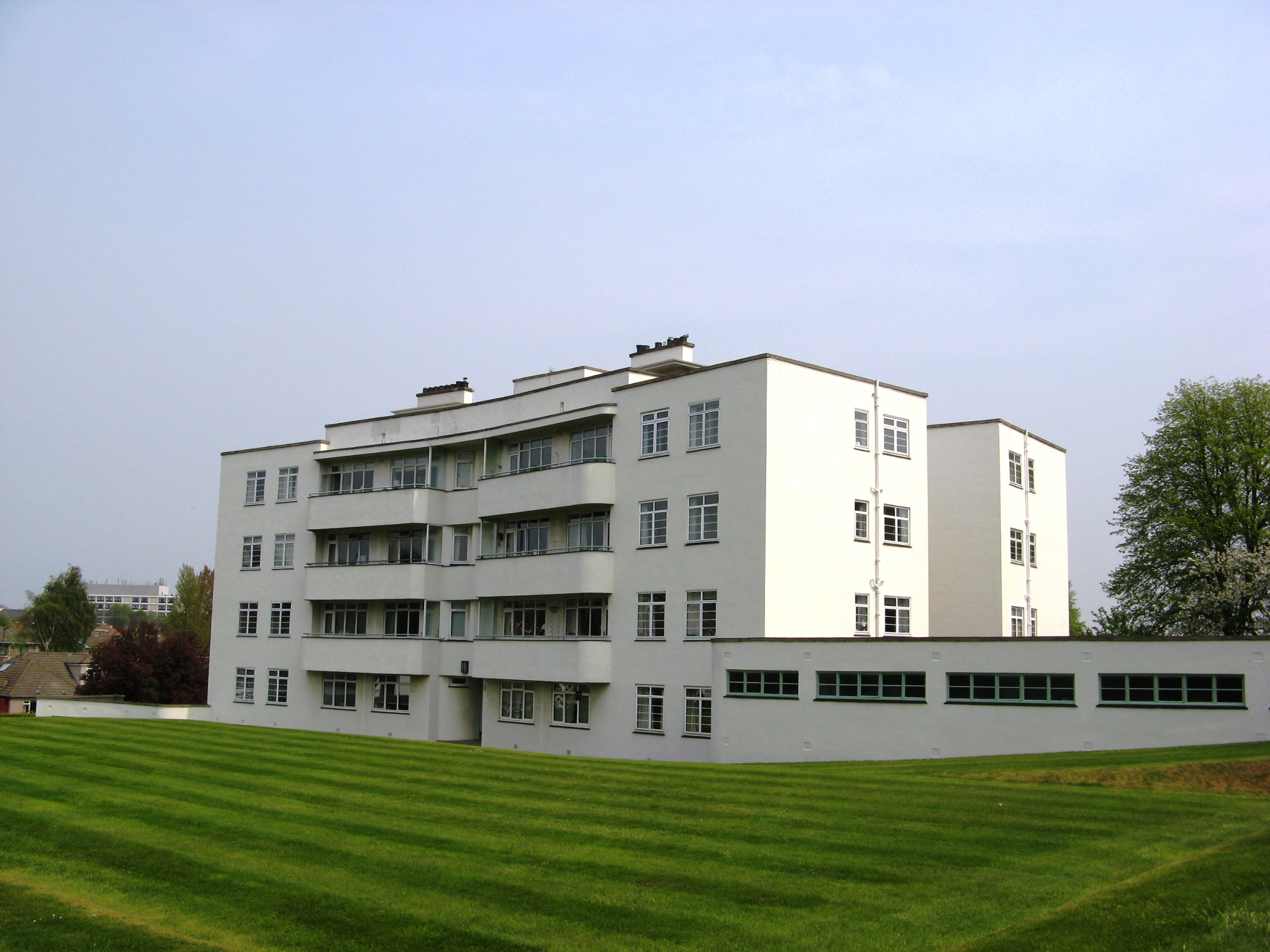 Nos. 17-32 Ravelston Garden, Edinburgh, Scotland. One of three identical blocks built in 1935-6, designed by Andrew Neil and Robert Hurd.